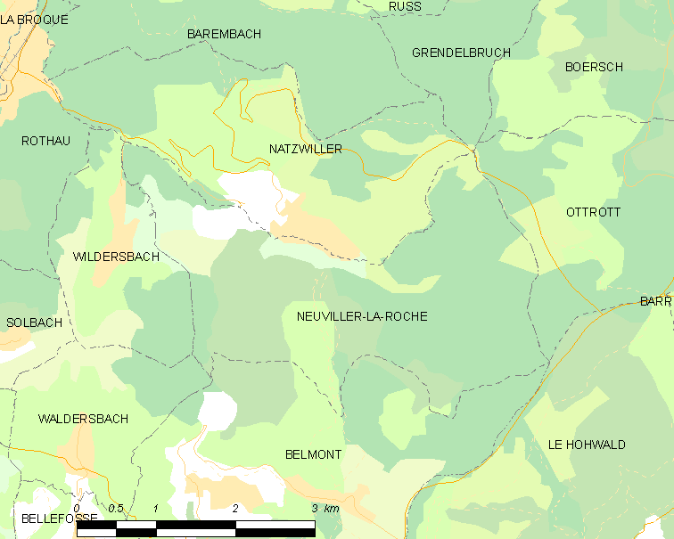 Map of French municipality